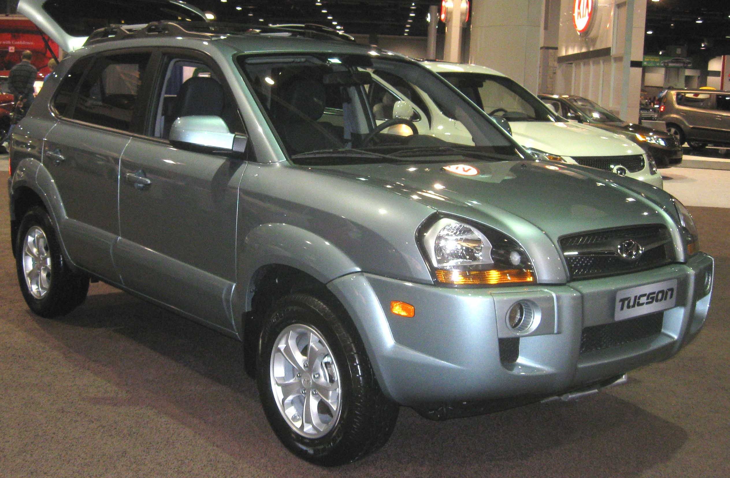 2009 Hyundai Tucson photographed at the 2009 Washington DC Auto Show.